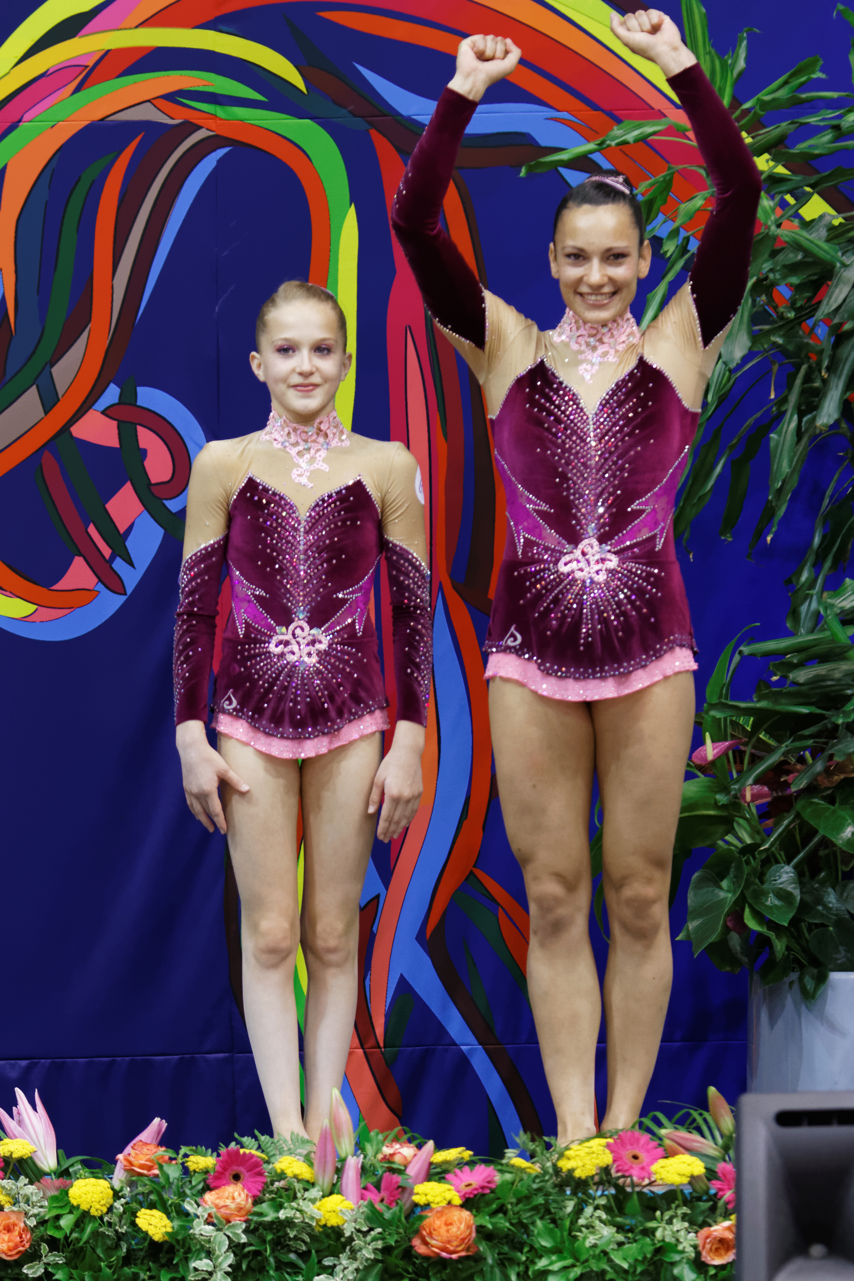 2014 Acrobatic Gymnastics World Championships, 10th-12 July, Levallois-Perret, France. Awarding ceremony.